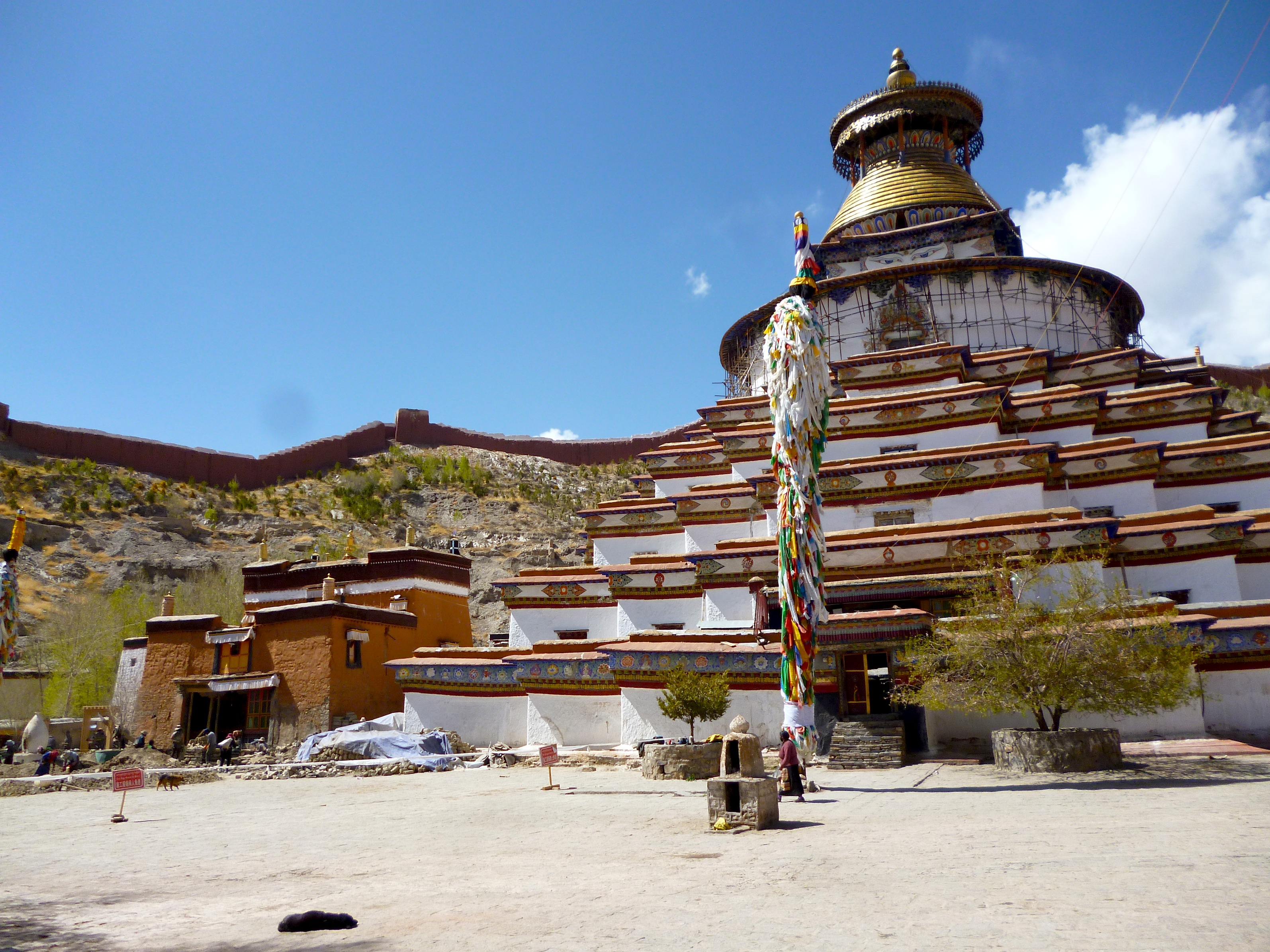 The Kumbum of Pelkor Monastery in Gyangze, Tibet